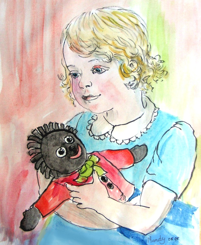 Pen and wash drawing entitled "Georgie and Wollygog". The image is uploaded specifically to demonstrate the inoffensive and innocent use of the golliwog as a popular child's toy.